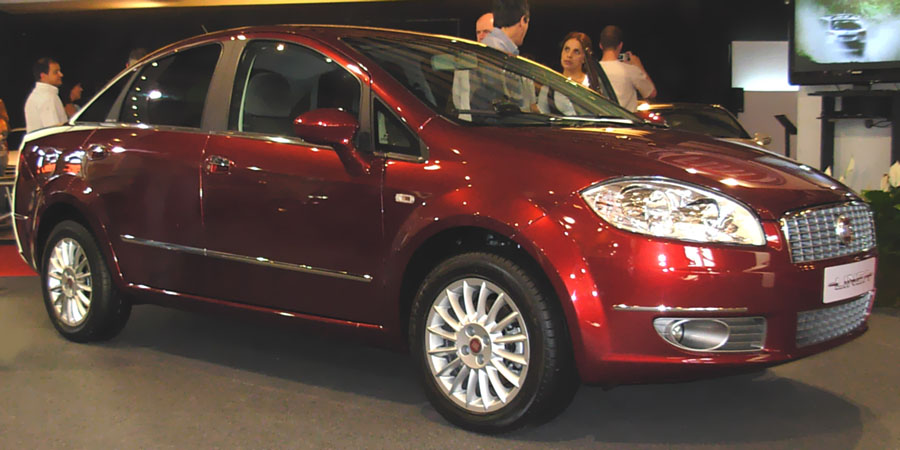 Front view of a Brazilian-built Fiat Linea 1.9 at the 2008 Montevideo Motor Show.